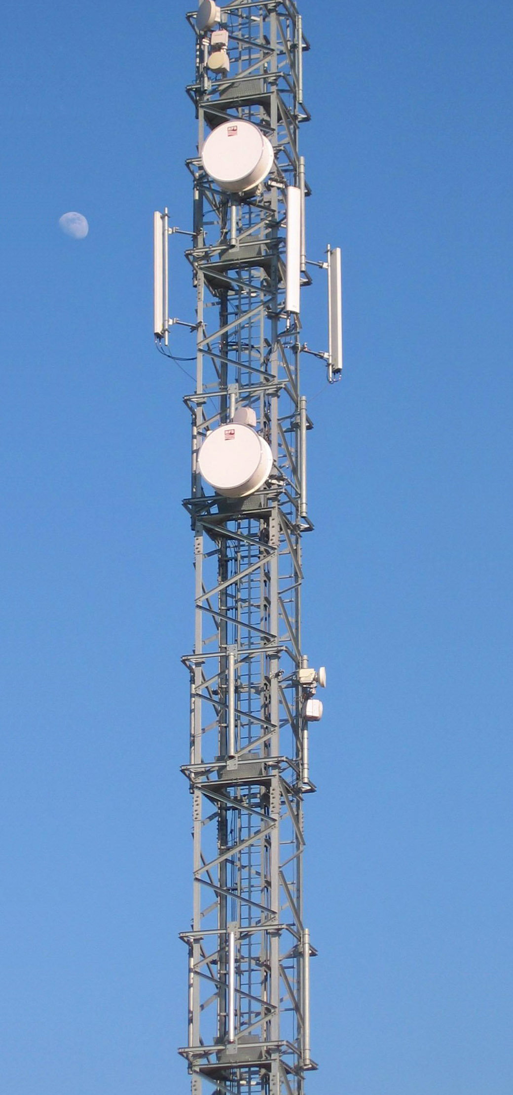 GSM station (moon in background) Pozuelo/Spain